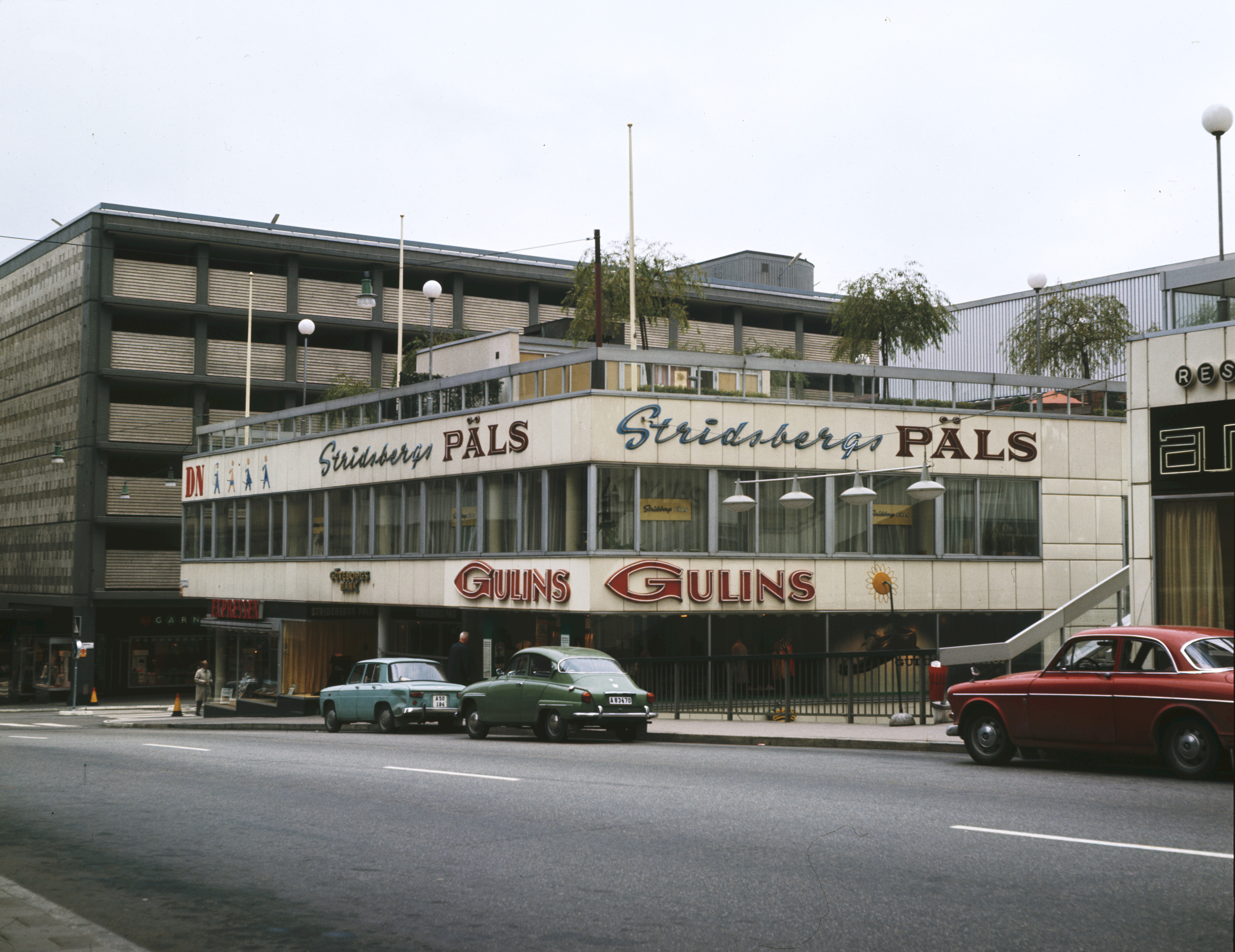 FOTOGRAFIVy snettöver Mäster Samuelsgatan mot affärerna Gulins och Stridsbergs Päls i kv. Beridarebanan. Terrass med träd på byggnadens tak. i bakgrunden p-huset P-Centrum. 1967-1967FOTOGRAF: Gram, Ingemar (Trädgårdsmästare).BILDNUMMER: DIA 15067Stadsmuseet i Stockholm